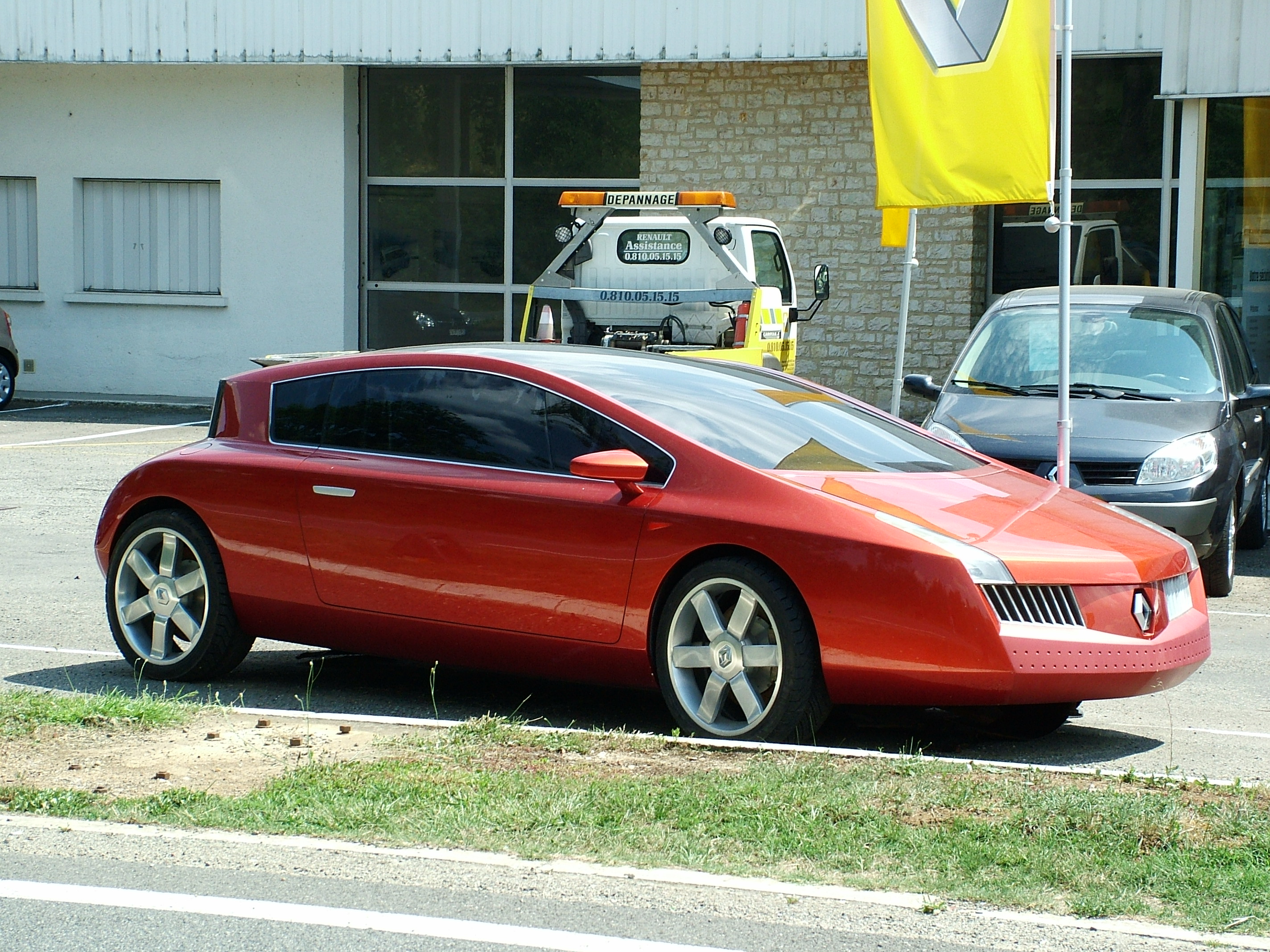 Renault Vel Satis concept car, originally from 1998.